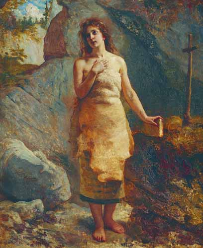 Sold by ARTinfo on November 10, 2002 for 47000zł